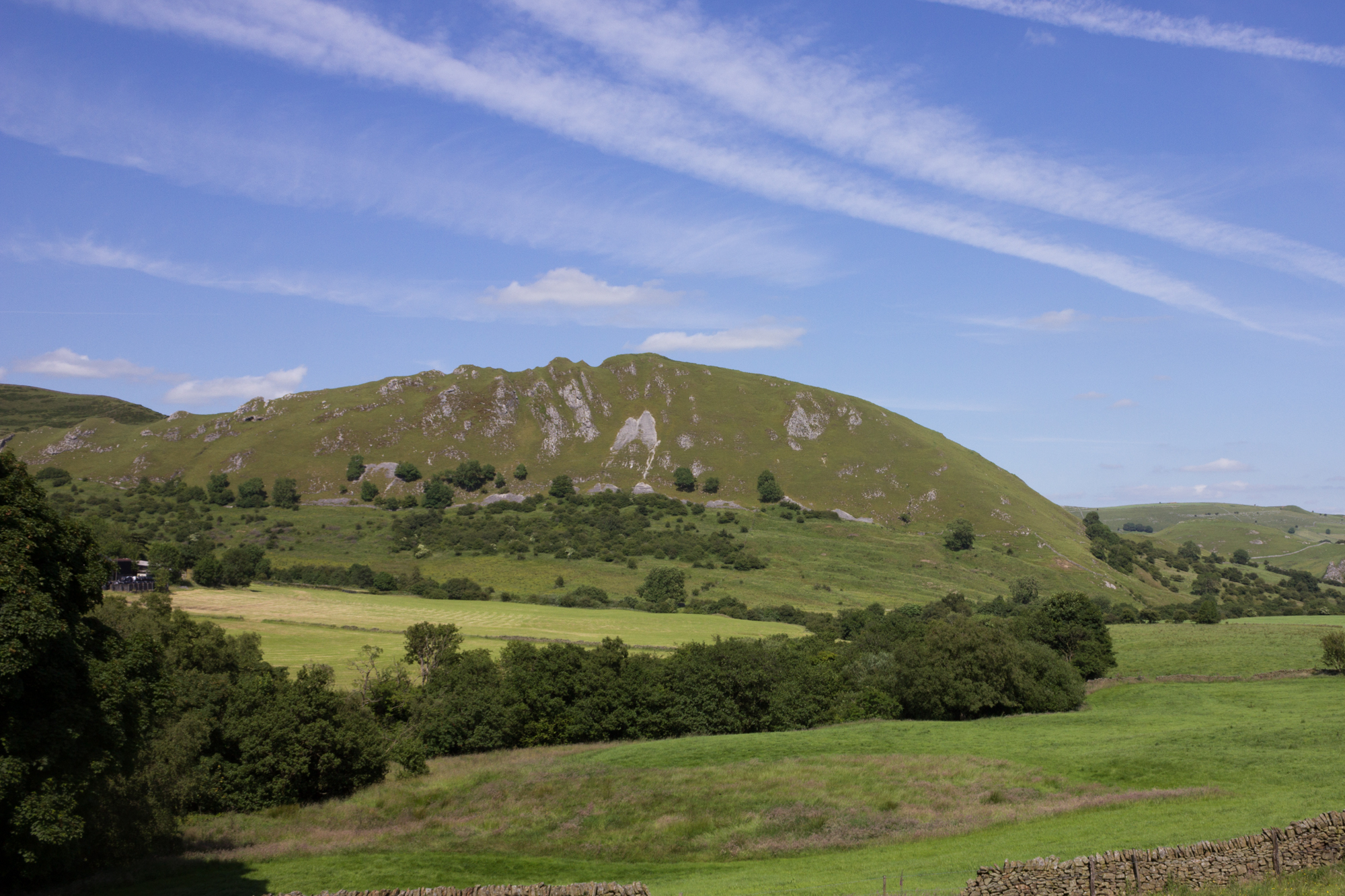 Chrome Hill as seen from just north of Hollinsclough